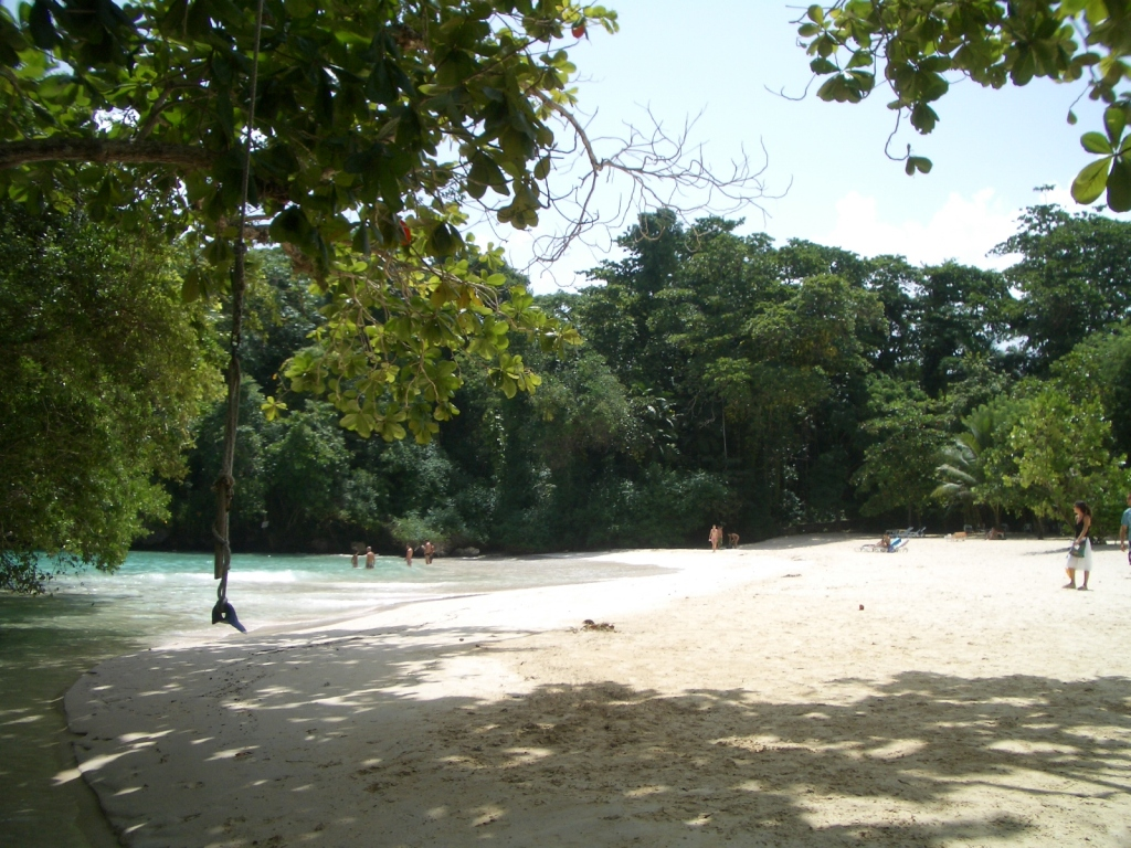 Frenchman's cove beach, Port Antonio, Portland, Jamaica.